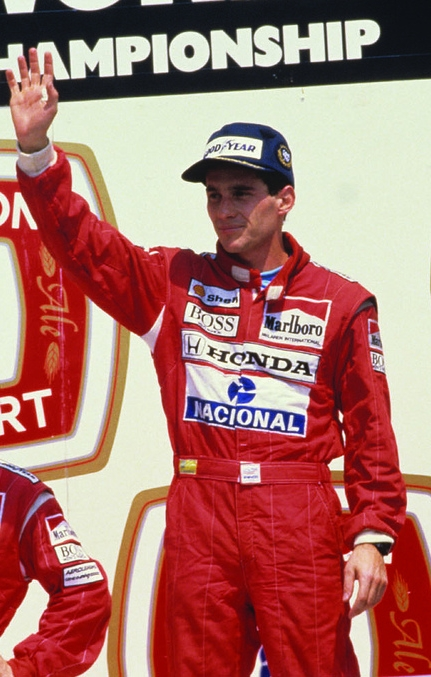 Ayrton Senna celebrating his victory in the 1988 Canadian Grand Prix